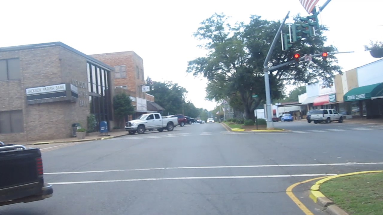 Another_street_scene_in_Jonesboro, LA